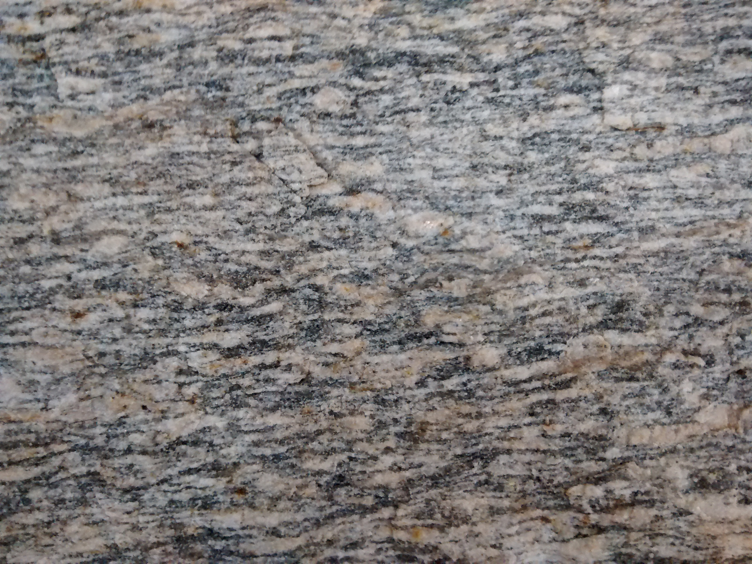 Henderson augen gneiss at the Mineral and Lapidary Museum in Hendersonville, North Carolina. This image is a close-up of one of the bricks that make up one wall of the museum.